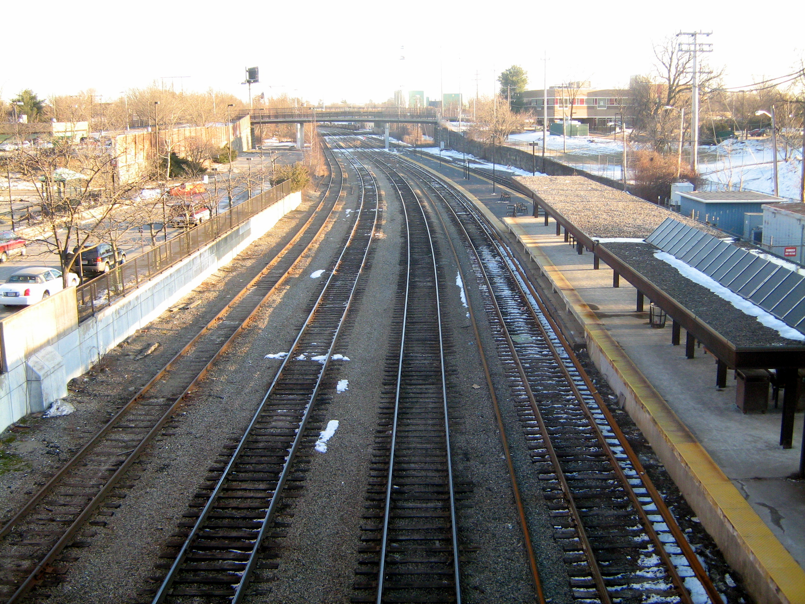 The Lowell stop on the Lowell line of the Massachusetts Bay Transportation Authority (MBTA) (USA) commuter rail, taken from the walkway above the tracks.